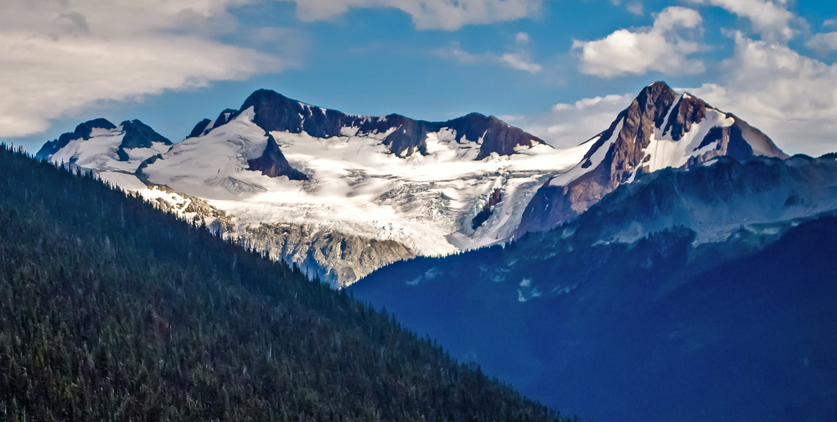 Overlord Mountain, BC Canada